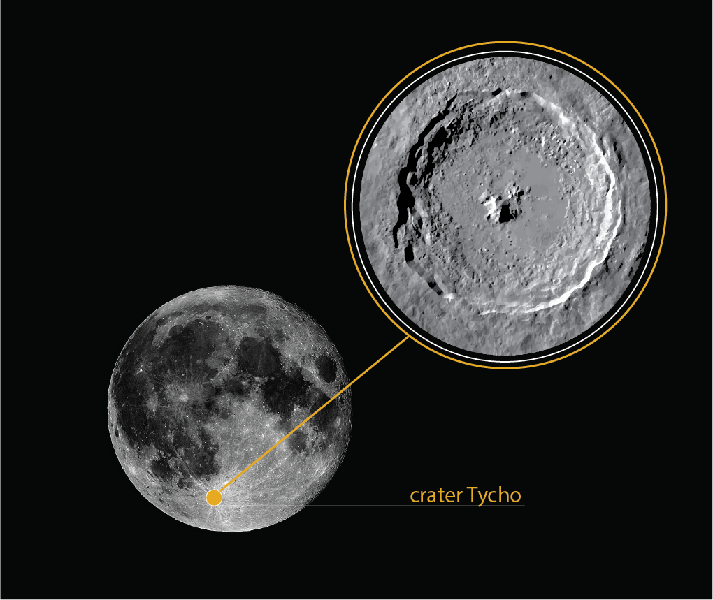 Tycho: 85 kilometer impact crater on the Moon, in the southern part of the visible side. It is named after the Danish astronomer and alchemist of XVI century Tycho Brahe. Tycho is not the biggest, but one of the most prominent lunar craters: it surrounded by the most notable ray system on the Moon. The rays were formed by light soil thrown out at the impact which formed the crater. They are best seen when the moon is full, but visible even when they are lit with light reflected by Earth. Tycho is a young crater: according to radiometric dating, it is 108 million years old. For comparison, the age of most large craters on the moon is about 3.9 billion years old. This image was created in Adobe Illustrator graphic design software and is fully vector image without using any photo.